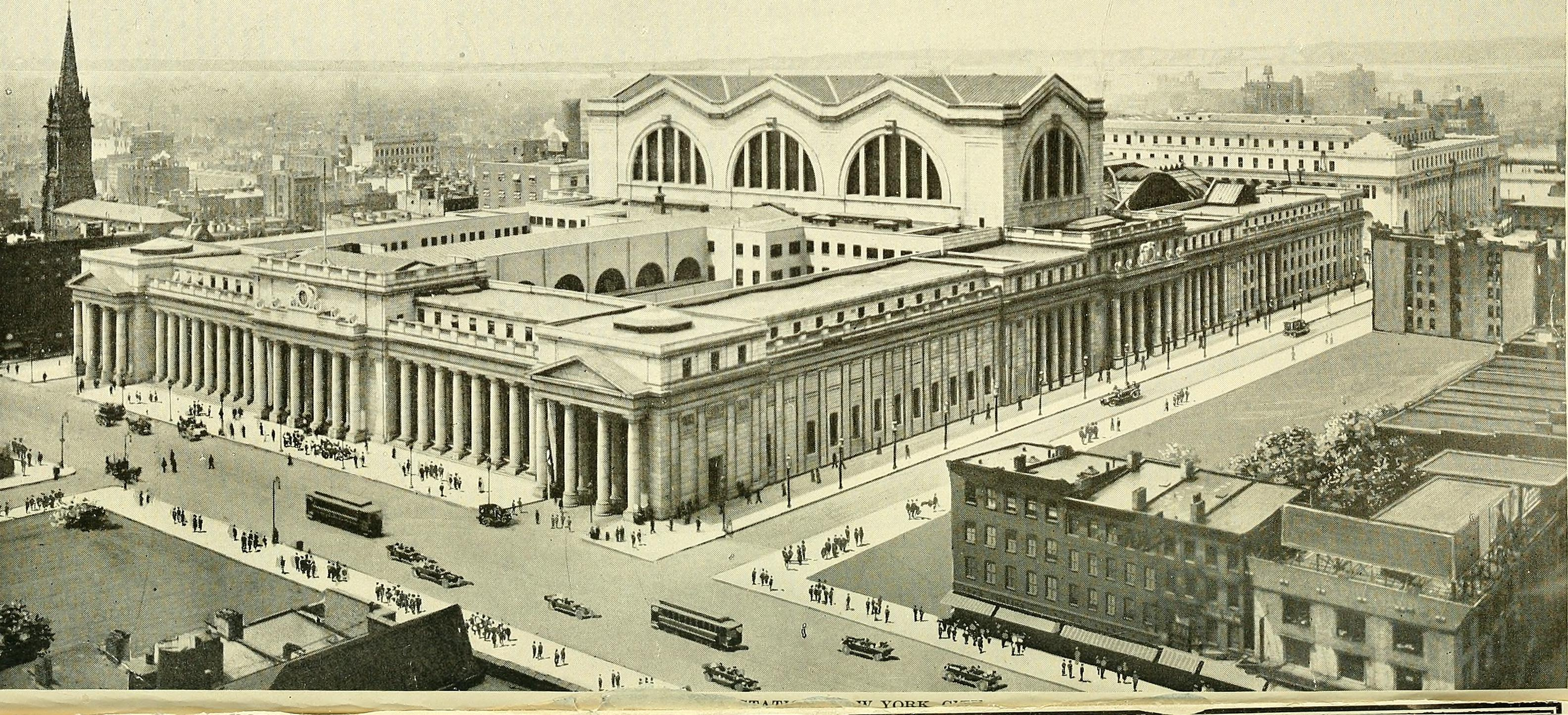 Title: Pennsylvania Railroad System ... a description of its main lines and branches, with notes of the historical events which have taken place in the territory contiguous .. Year: 1916 (1910s) Authors: Pennsylvania Railroad Subjects: Pennsylvania Railroad Publisher: (Buffalo, The Matthews-Northrup Works) Text Appearing Before Image: ^*F ft l;P THE PENNSYLVANIA SYSTEM Historical and Descriptive J Text Appearing After Image: PENNSYLVANIA RAILROAD SYSTEMpennsylvaniarail01penn